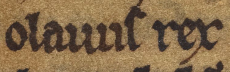 An excerpt from folio 44r of British Library Cotton MS Julius A VII (the Chronicle of Mann). A transcription of this excerpt appears on page 92 of: Munch, PA; Goss, A, eds. (1874). Chronica Regvm Manniæ et Insvlarvm: The Chronicle of Man and the Sudreys. Vol. 1. Douglas, IM: Manx Society. The excerpt reads: "Olavus rex". The excerpt refers to Óláfr Guðrøðarson (died 1237).